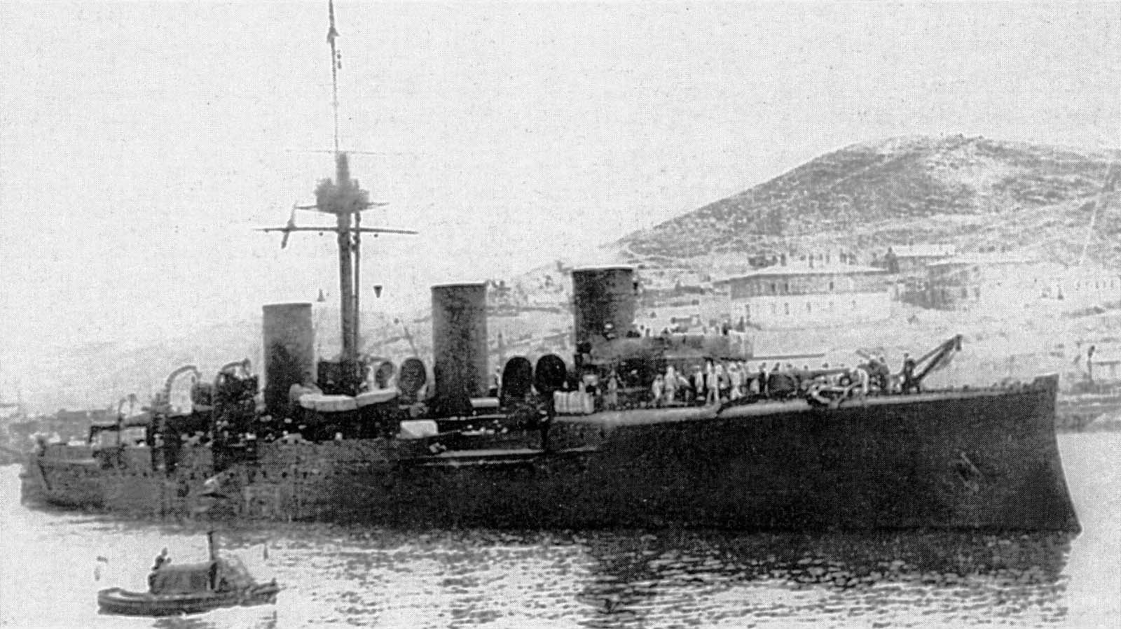 Imperial Russian cruiser Novik at Port-Arthur, 1904.